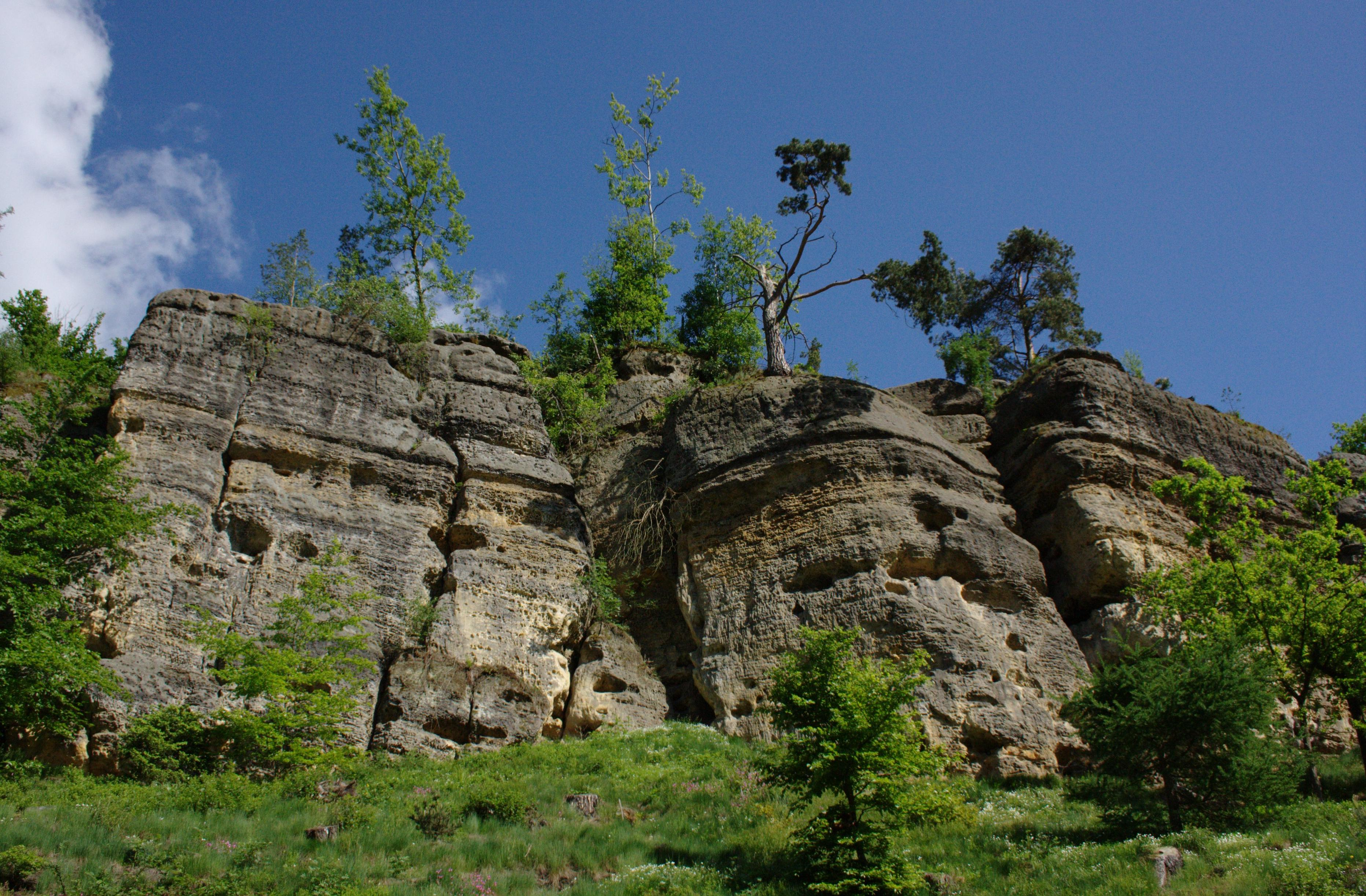 Rocks in Pšovka Valley. Kokořínsko, Czech Republic This photograph was taken with a DSLR from WMCZ's Camera grant. Project: Fotíme Česko